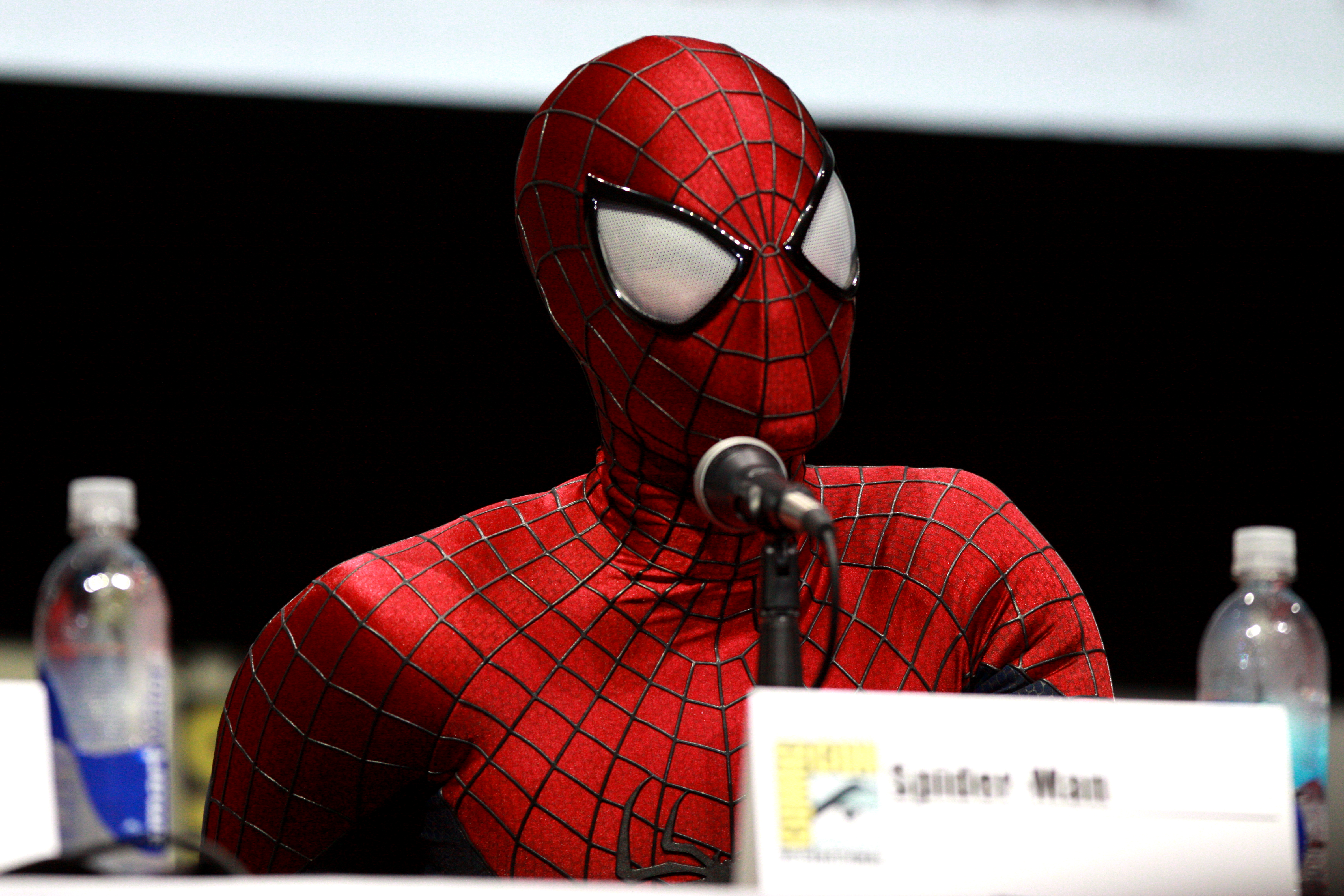 Spider-Man speaking at the 2013 San Diego Comic Con International, for "The Amazing Spider-Man 2", at the San Diego Convention Center in San Diego, California.